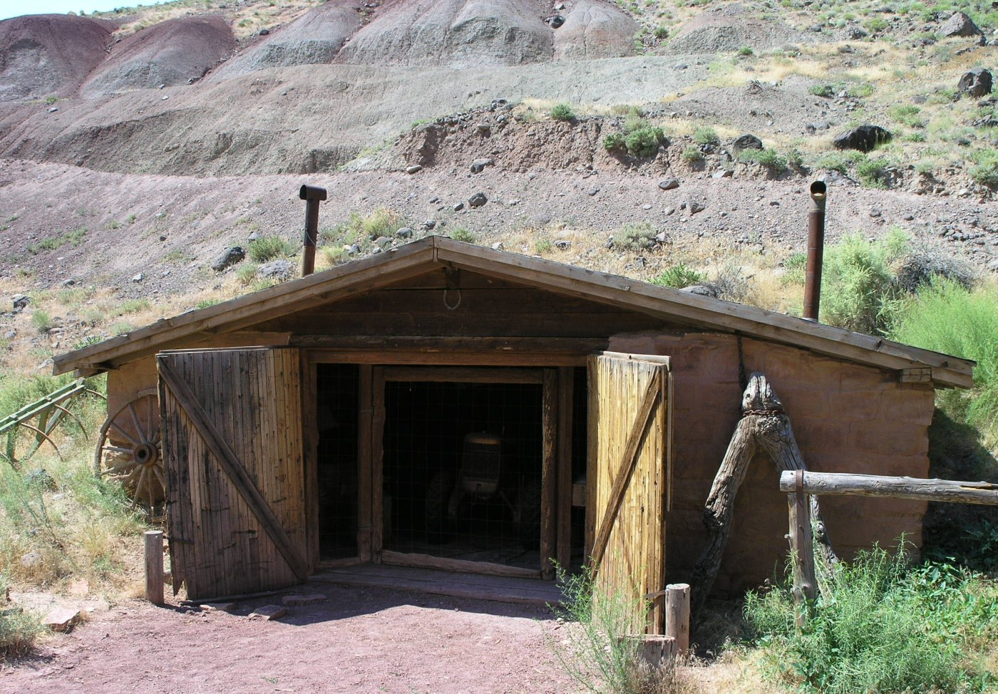 Picture taken by Daniel Mayer in late June 2005.